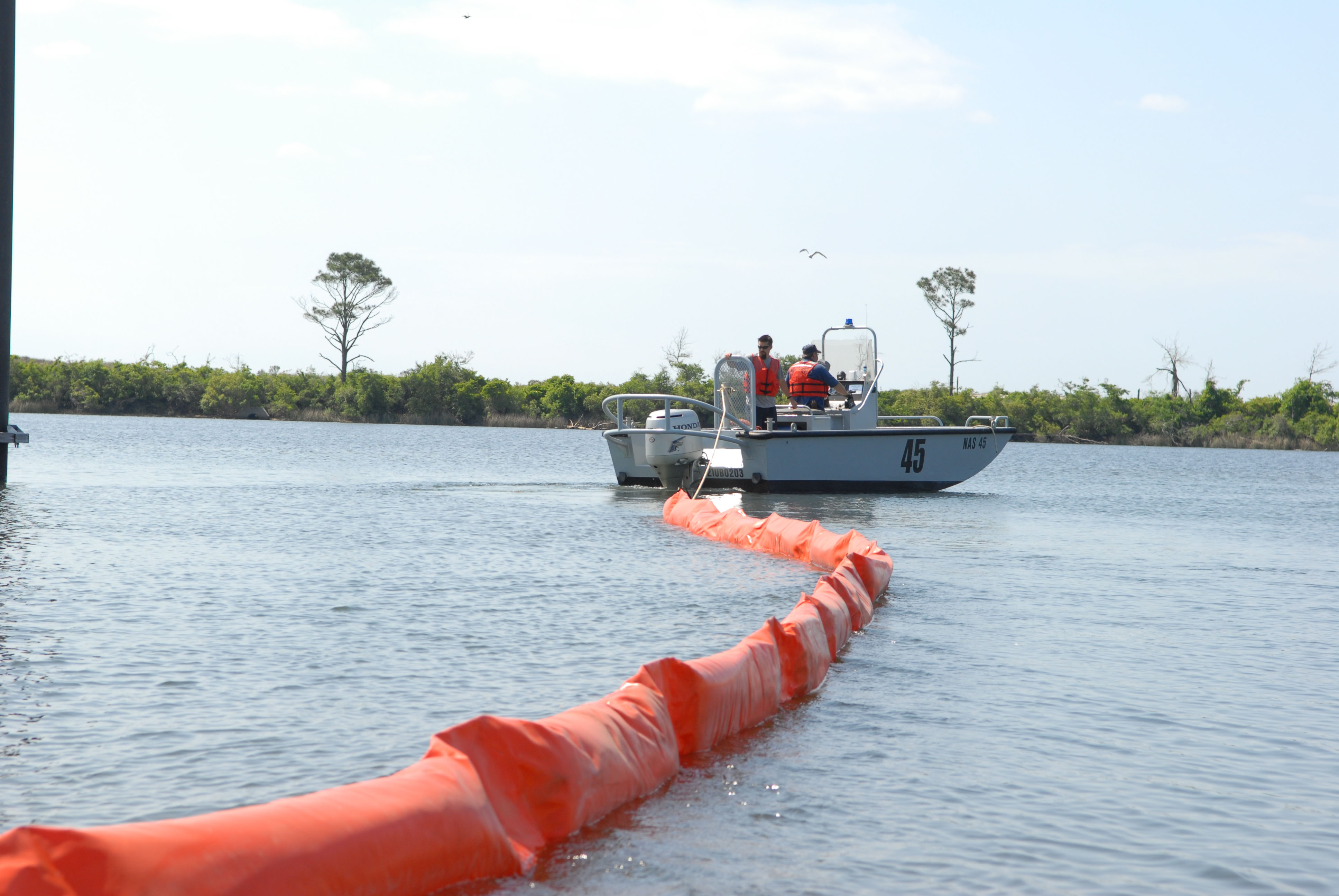 PENSACOLA, Fla. (May 4, 2010) Members of the Naval Air Station Pensacola Pollution Response unit deploy an oil containment boom at Sherman Cove on the base to protect environmentally sensitive grass beds from the Deepwater Horizon oil spill. Deepwater Horizon was an ultra-deepwater oil rig that sank April 22, causing a massive oil spill threatening the U.S. Gulf Coast. (U.S. Navy photo by Patrick Nichols/Released)